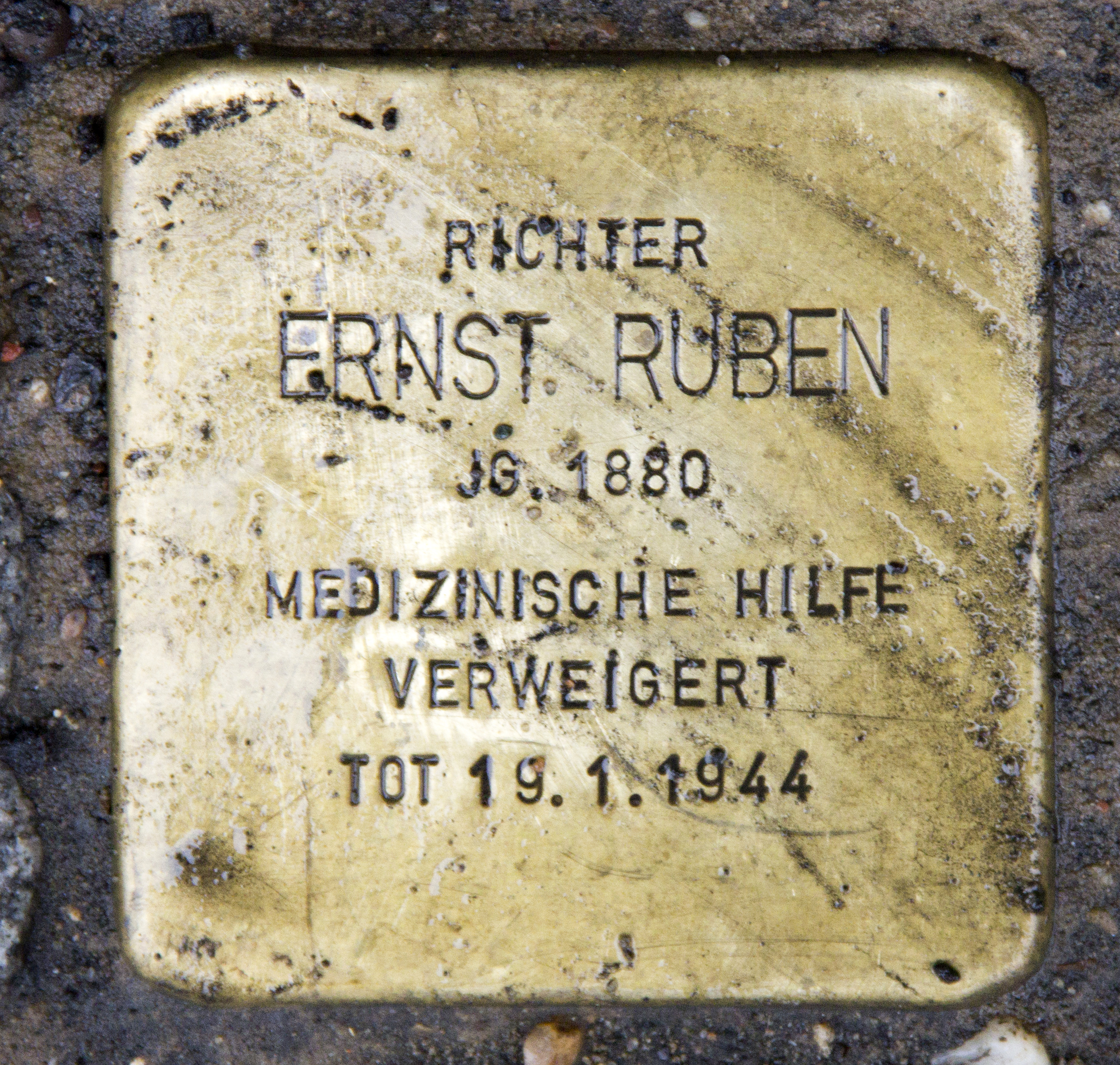 "Stolperstein" (stumbling block), Ernst Ruben, Magdeburger Platz 1, Berlin-Tiergarten, Germany